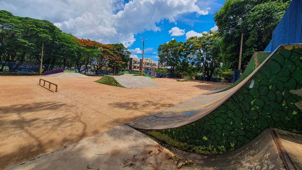 Skating park in Pedro Juan Caballero, Paraguay